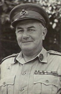 John Murray MAREEBA, ATHERTON TABLELAND, QUEENSLAND, AUSTRALIA. 1944-09-29. NX365 MAJOR-GENERAL J.J. MURRAY, DSO, MC, VD, HEADQUARTERS FIRST ARMY.